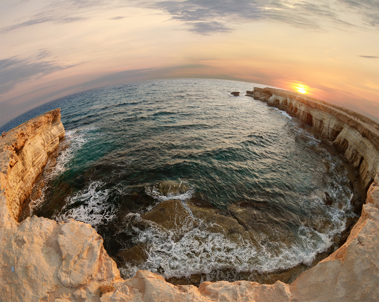 Cape Greco National Park, Cyprus